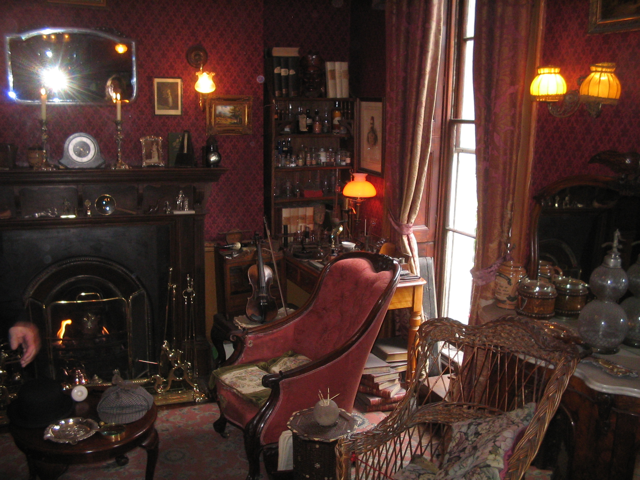 Sherlock Holmes study view (Trafalgar Sq., Holmes Museum, Hyde Park)